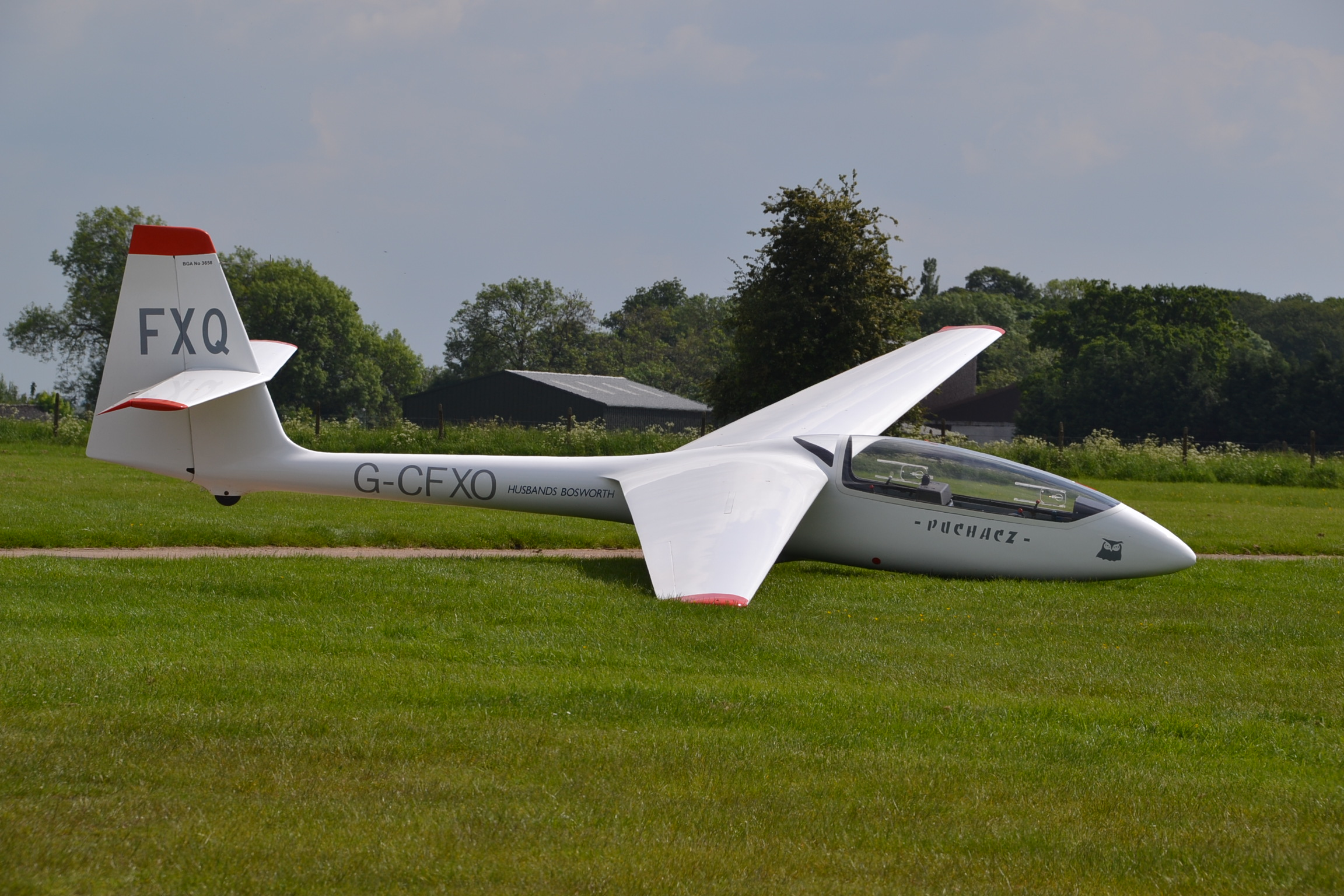 PZL-Bielsko SZD-50/3 at Husbands Bosworth,Leics.,01/06/14.